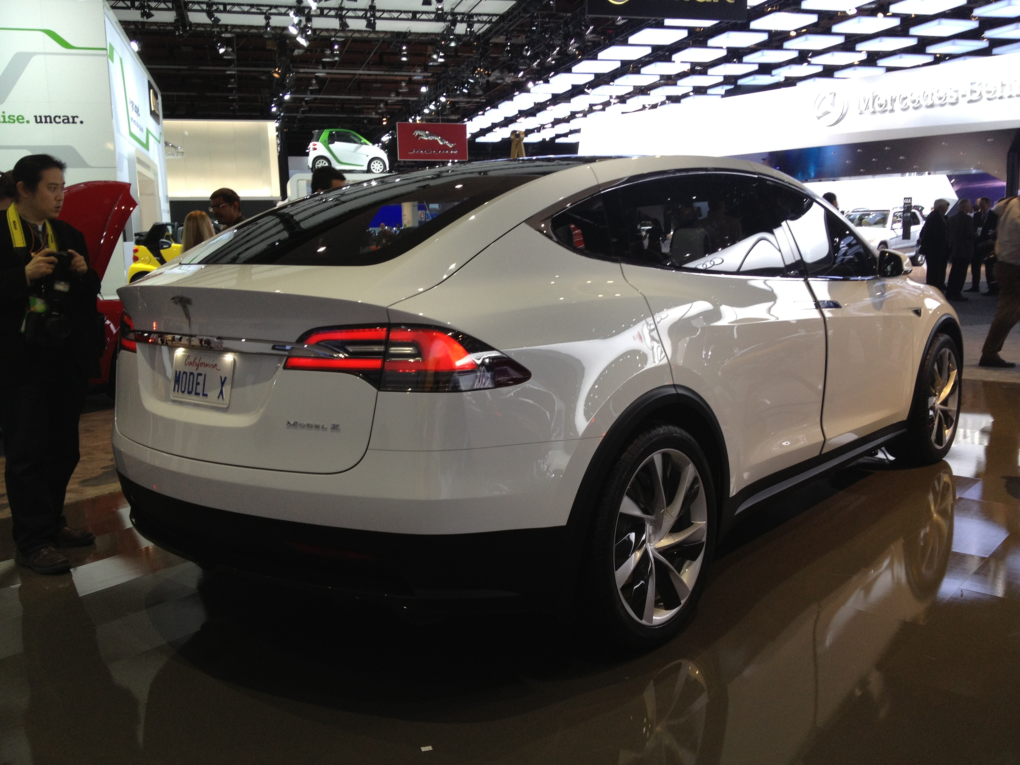 2013 North American International Auto Show Detroit, Michigan